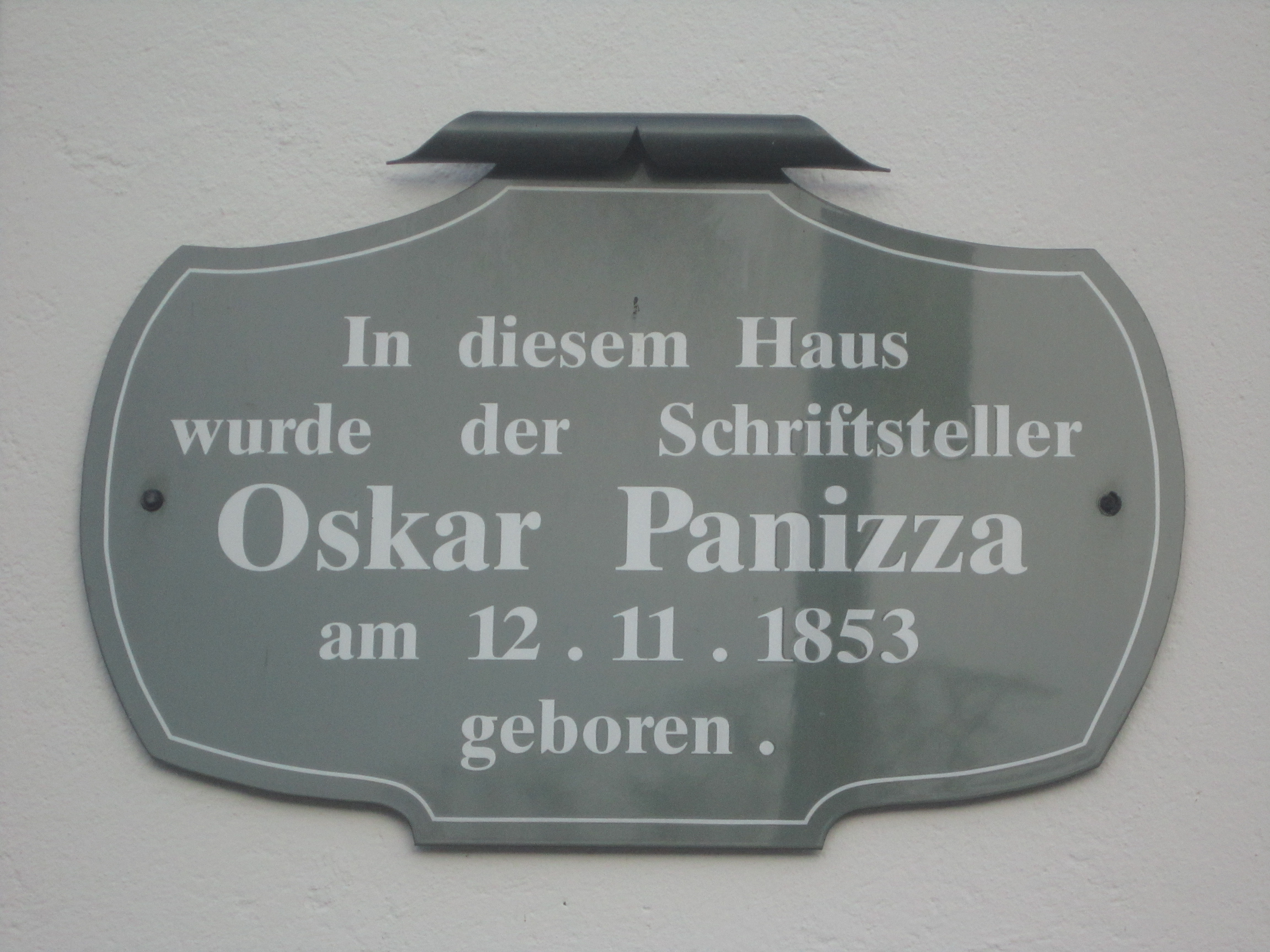 Plague at a building in the German spa town of Bad Kissingen in Lower Franconia (Bavaria) (Address: Kurhausstraße 09).